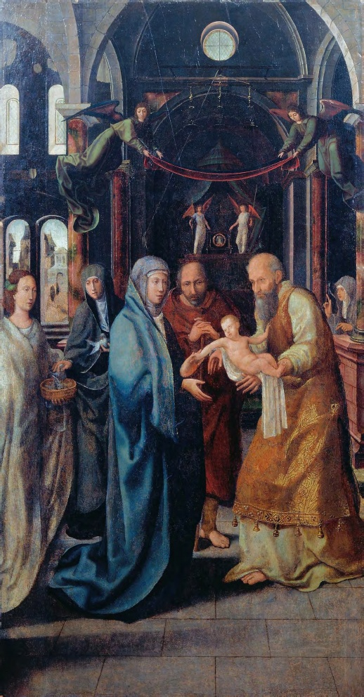 The Presentation at the Temple (c. 1506-11), by Grão Vasco, part of the polyptych of the High Chapel of the Lamego Cathedral.